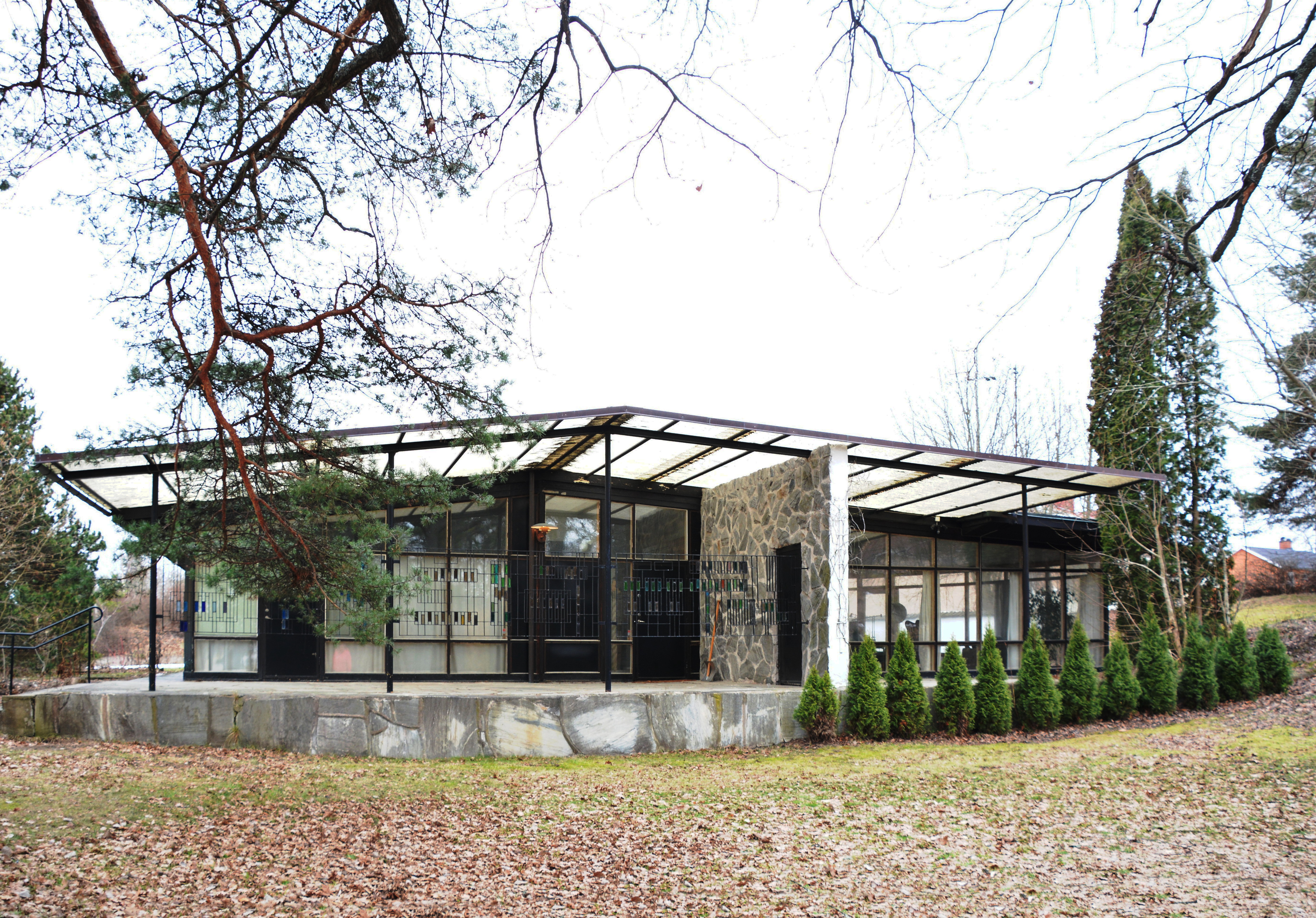 Villa Prenker i Kungsör av Bruno Mathsson